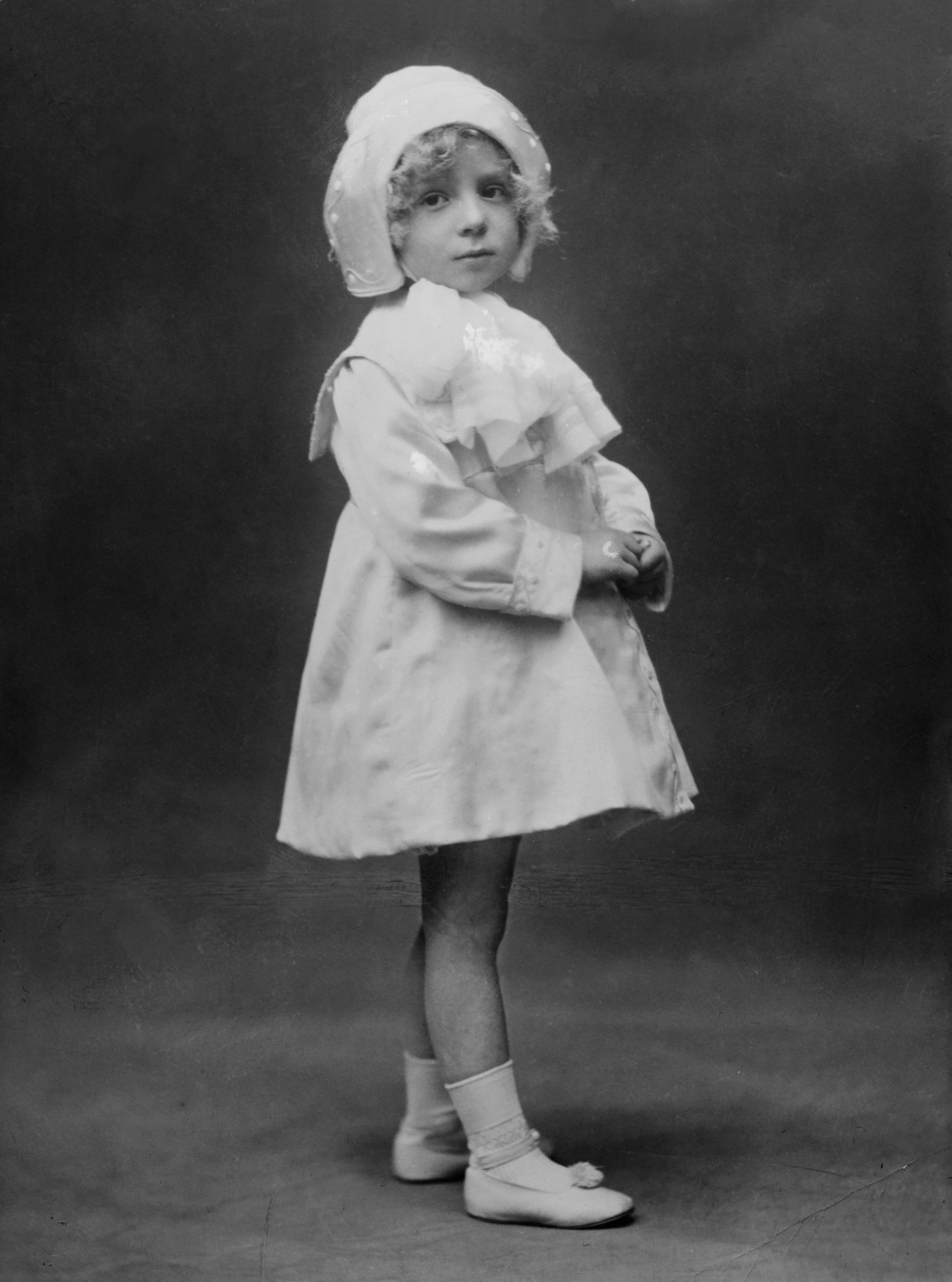 Infanta Beatriz of Spain (1909-2002) as a small child.